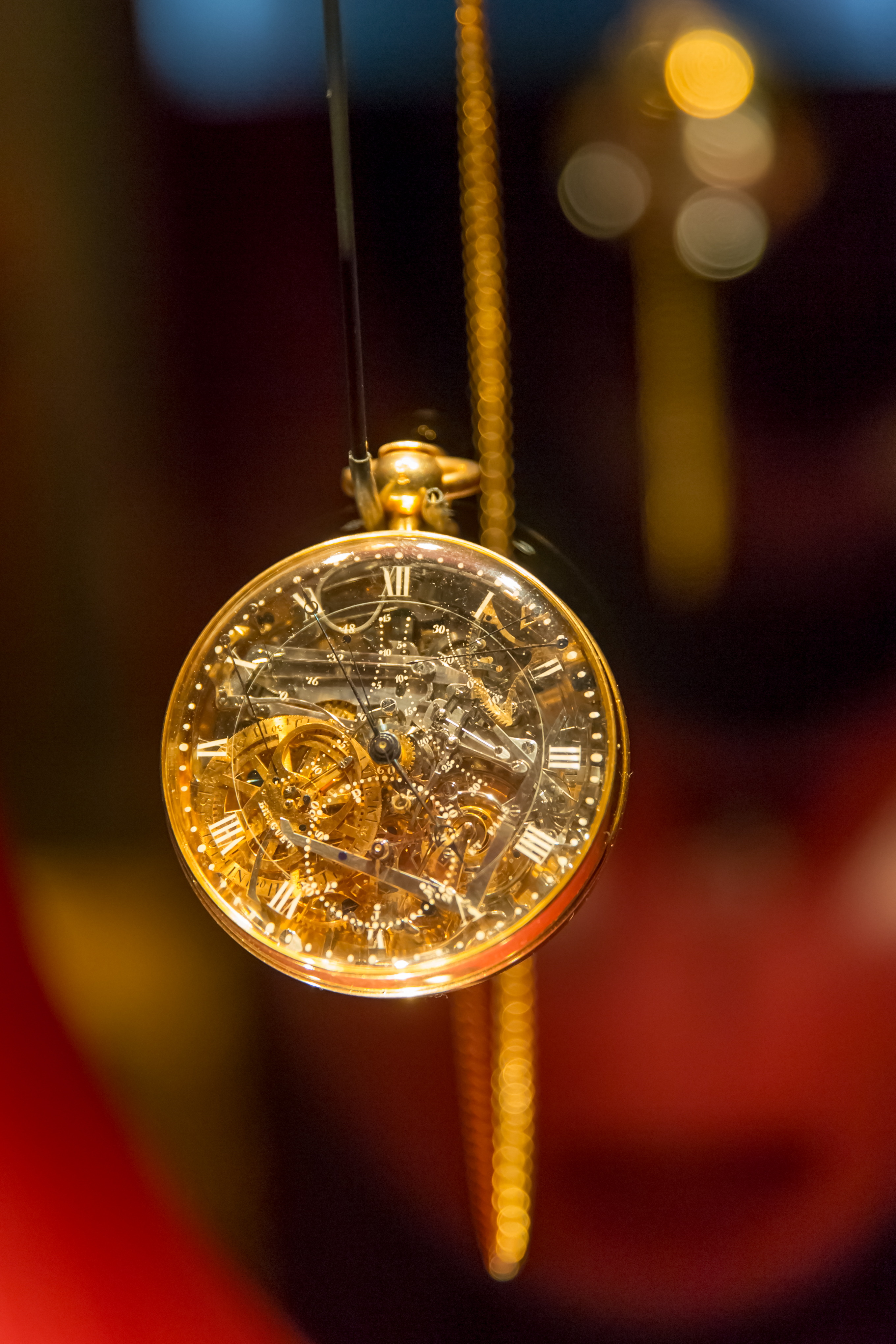 Marie Antoinette watch in Jerusalem